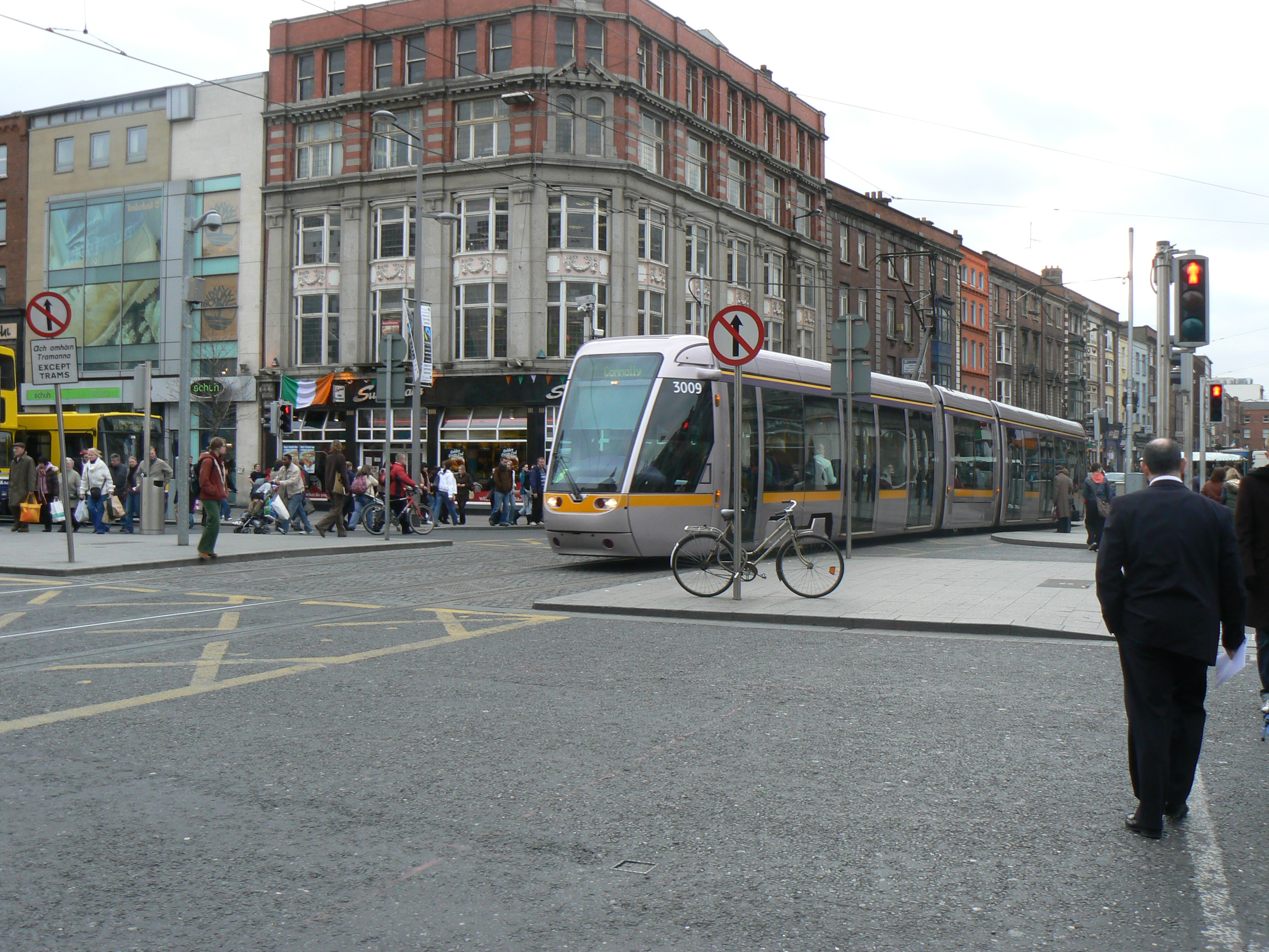 A Dublin street with a tram. Photo by Skvattram 2007-03-24.